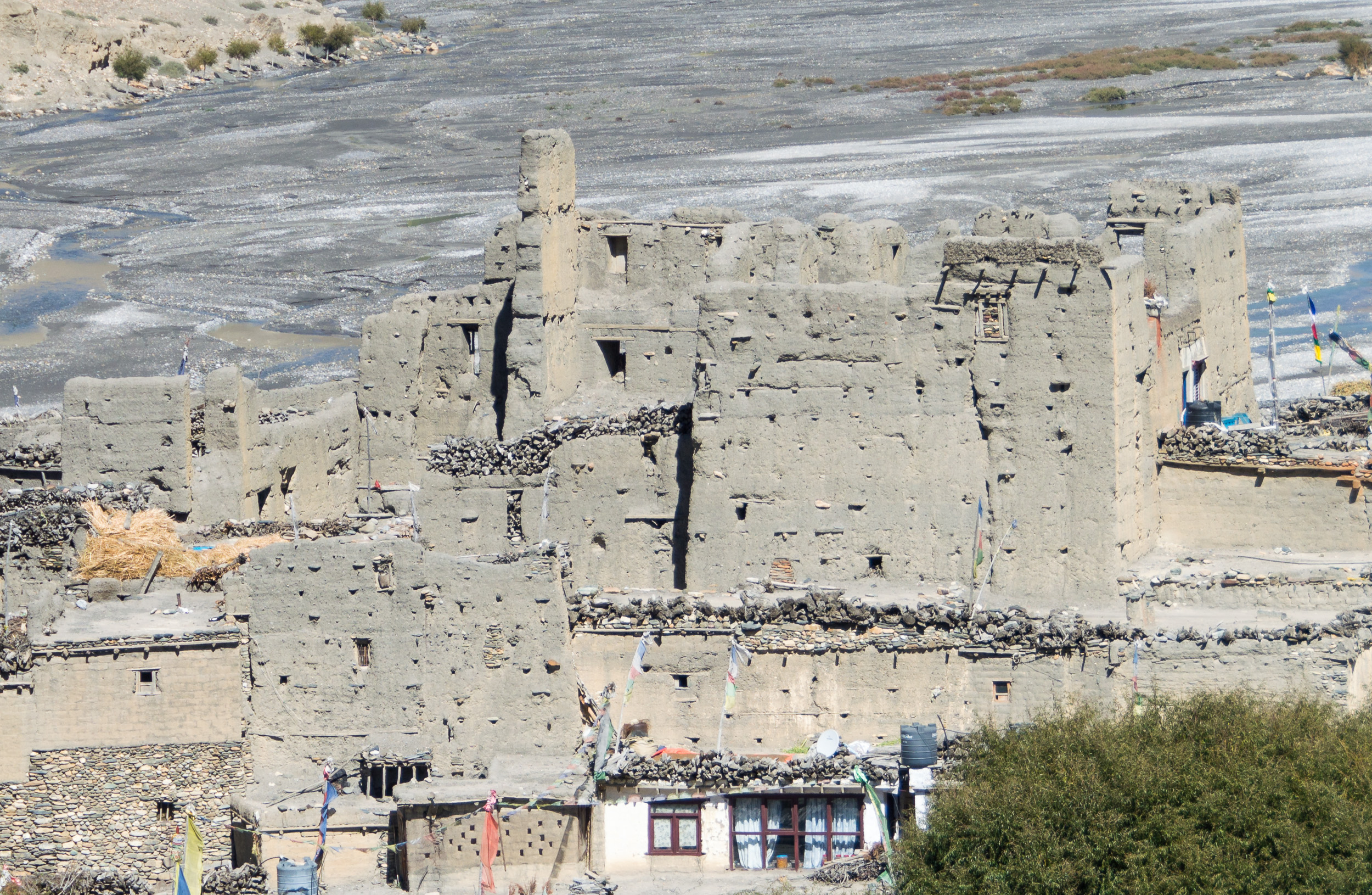 Kag Khar fort in Kagbeni, Nepal